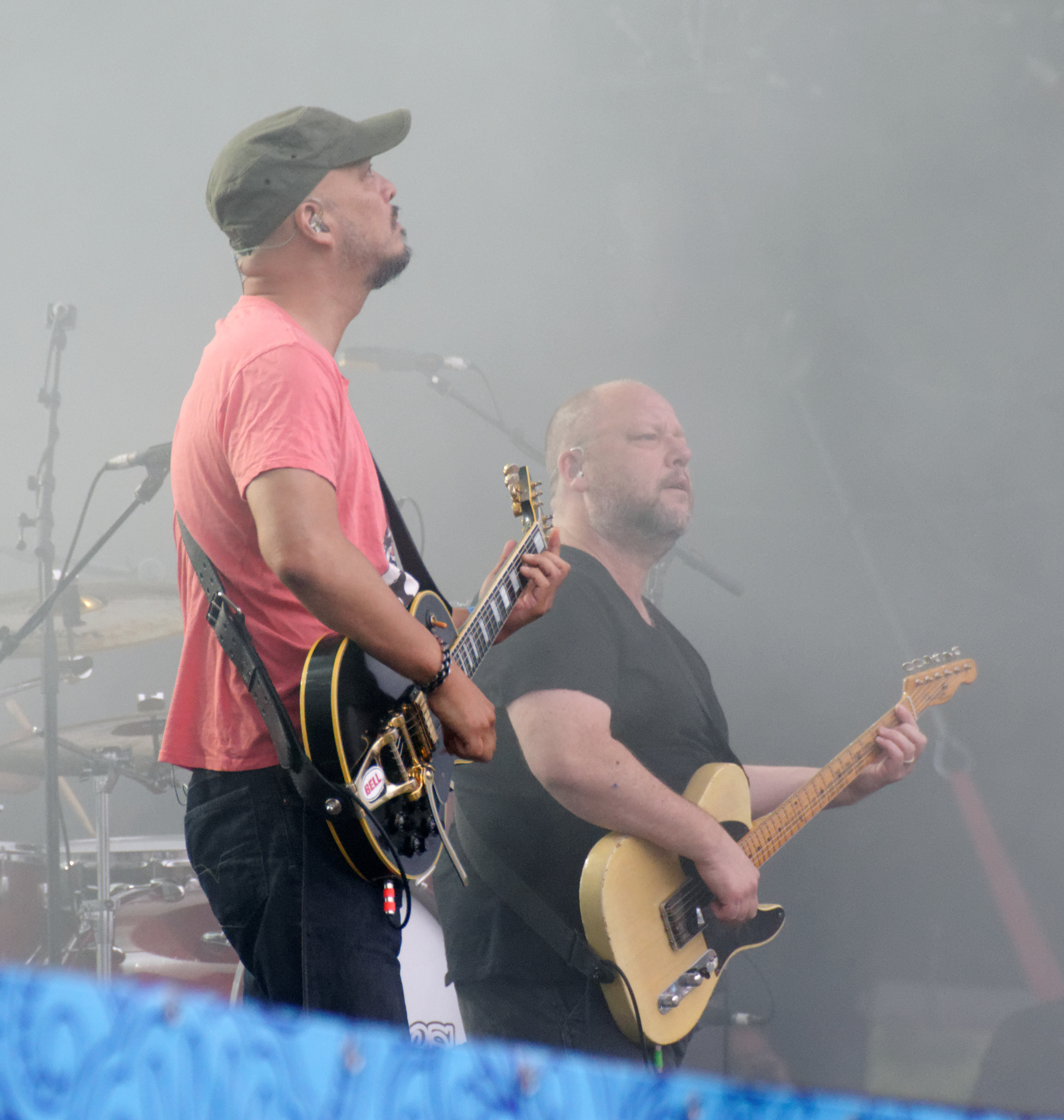 Personality rights warningAlthough this work is freely licensed or in the public domain, the person(s) shown may have rights that legally restrict certain re-uses unless those depicted consent to such uses. In these cases, a model release or other evidence of consent could protect you from infringement claims.